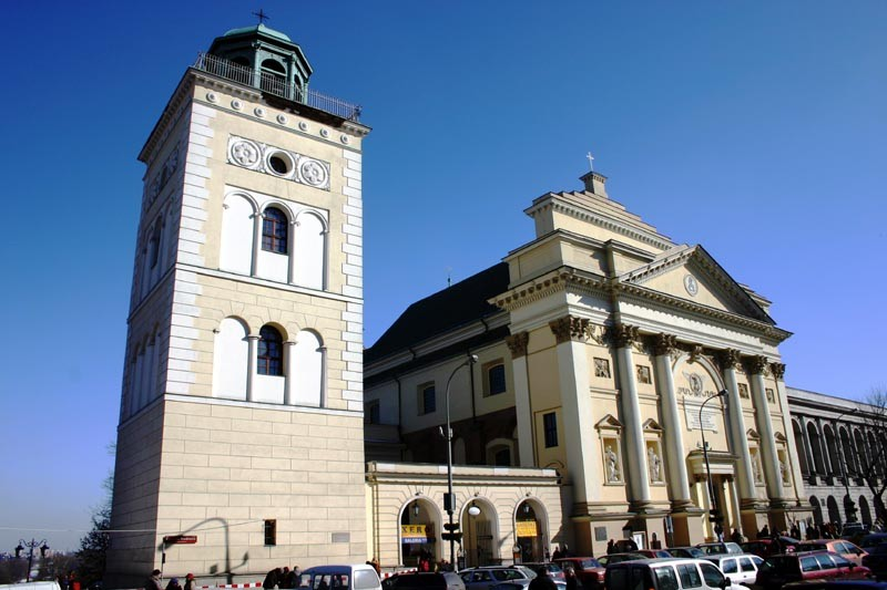 St. Anna Church in Warsaw